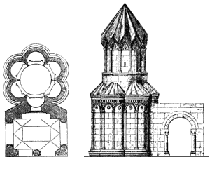 Plan of the monastery of Hripsimian Virgins, Ani, Turkey.